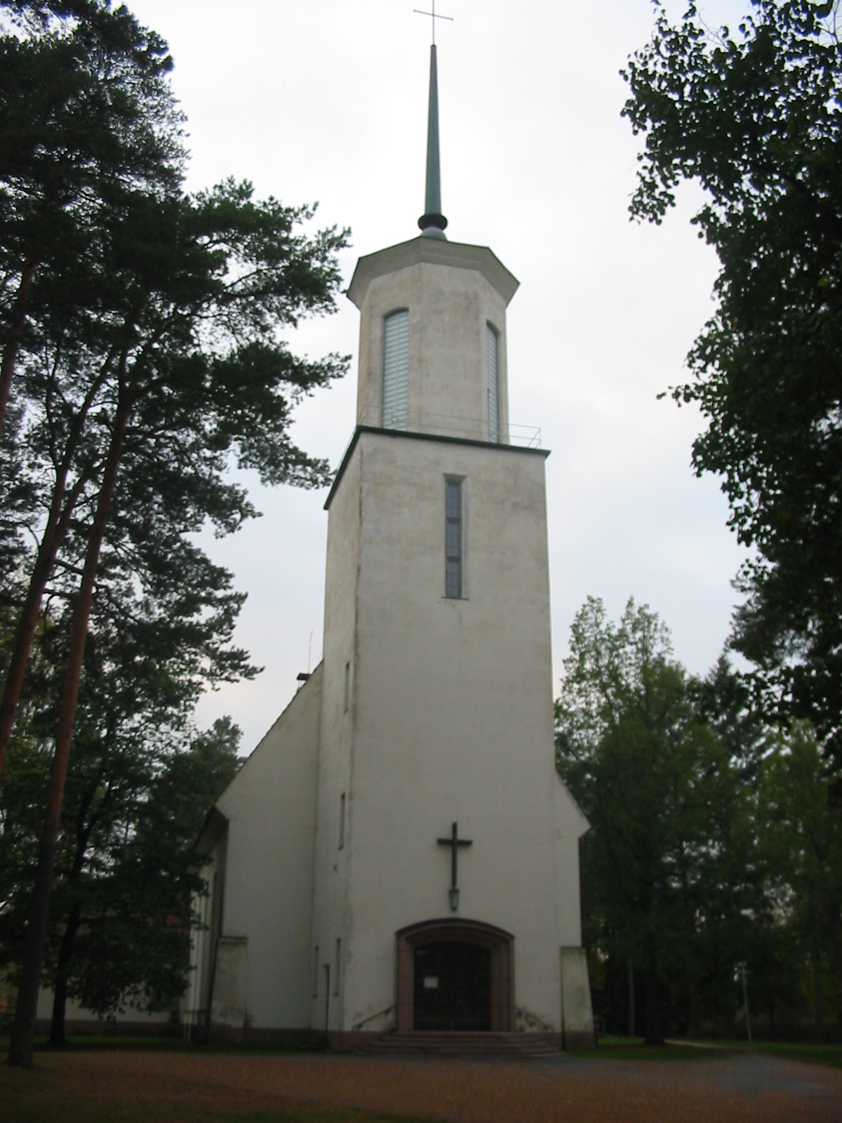 The Koski Tl Church, Finland Proper